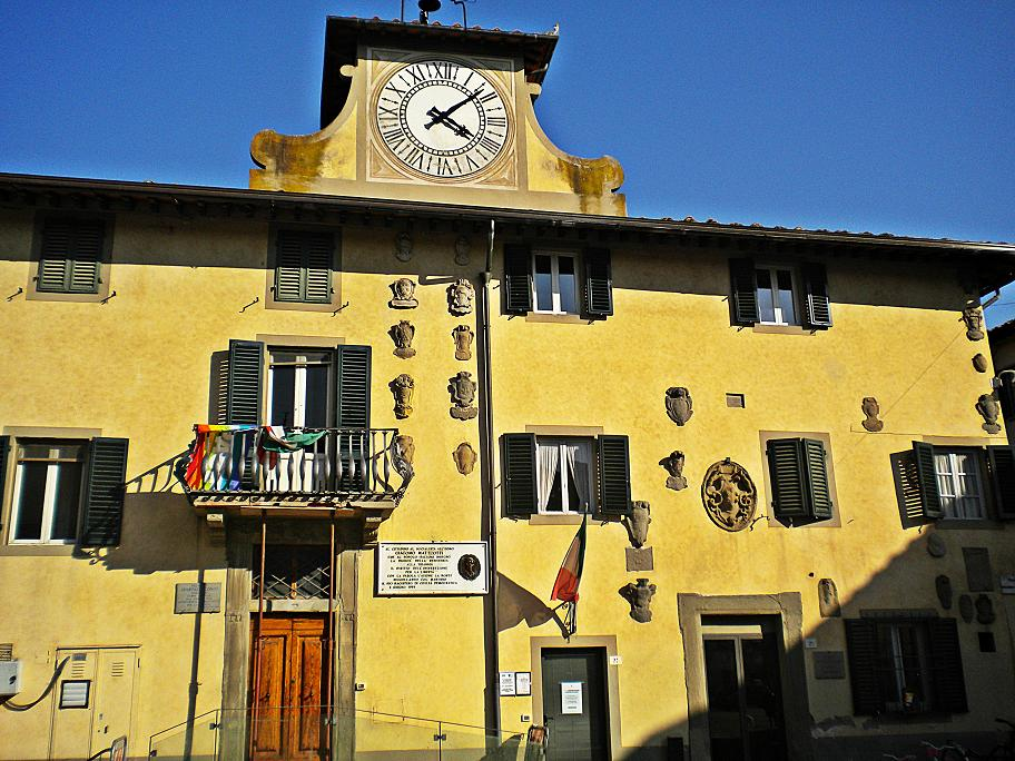 the palace